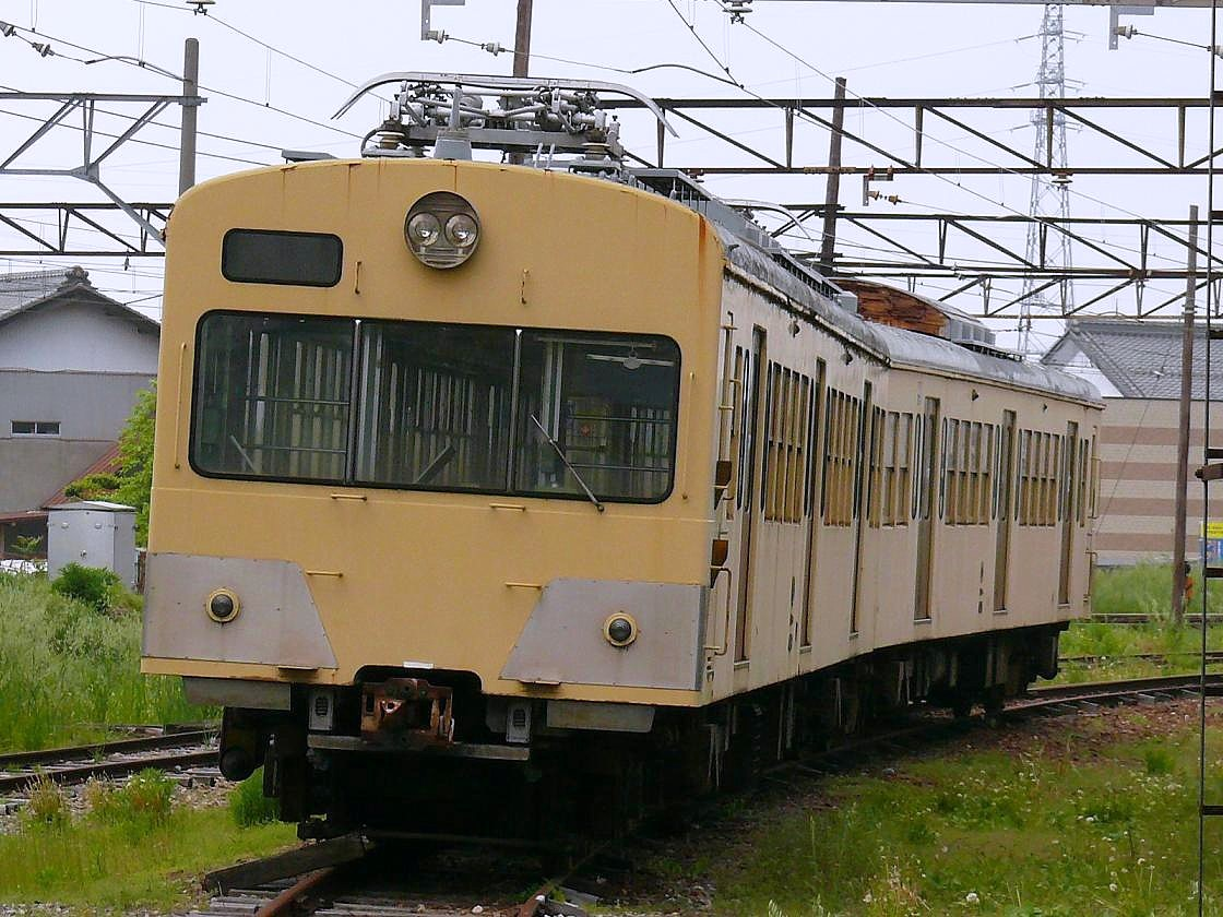 Seibu 401 Train transferred to Oumi railway.